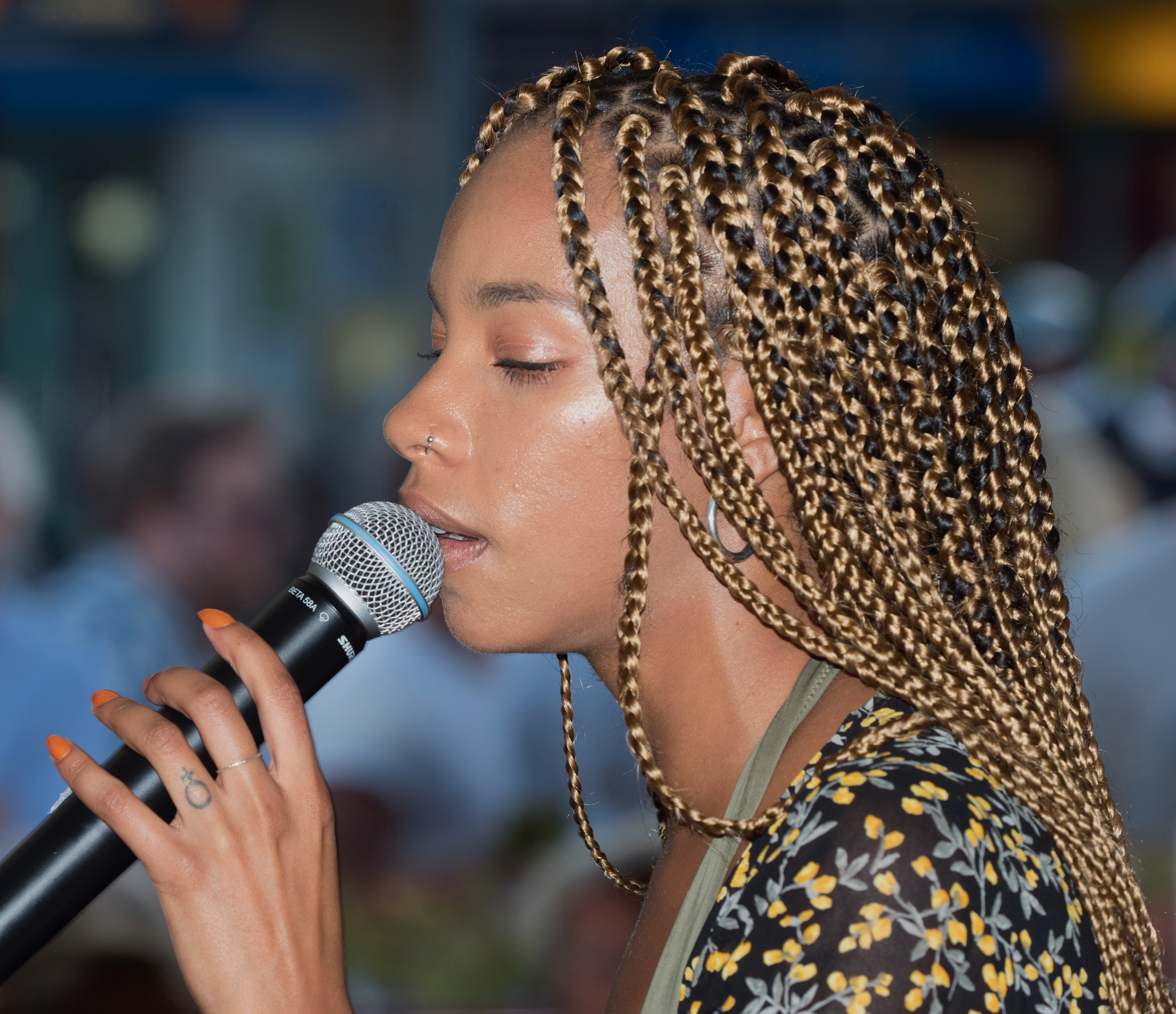 Janice at Winbergs, Vaxholm, Stockholm, Sweden, July 2018